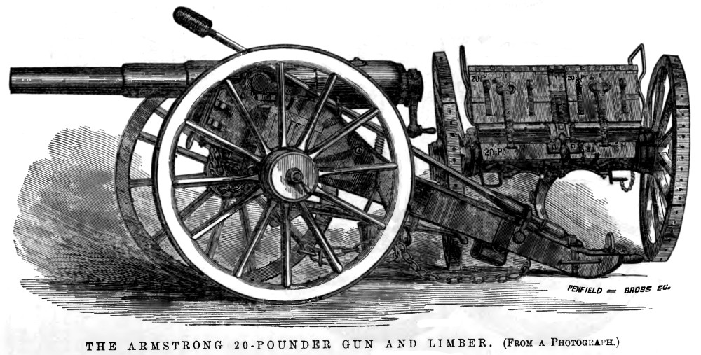 Woodcut image of RBL 20 pounder 16 cwt Armstrong field gun and limber.